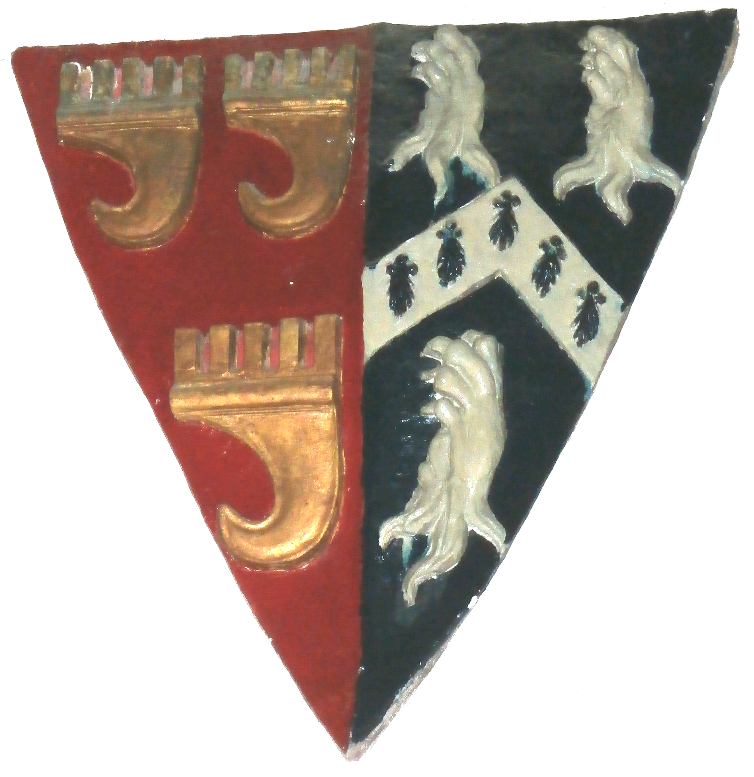 Arms of Henry Grenville (d.1327) of Stowe, Kilkhampton, Cornwall & Bideford, Devon (Gules, three clarions or) impaling Wortham (Sable, a chevron ermine between three lion's gambs erased argent), the arms of his wife Ann Wortham. (Granville, Rev. Roger, Rector of Bideford, History of the Granville Family traced back to Rollo First Duke of Normandy, with pedigrees etc., Exeter, 1895, p.51 [1]; Arms of "Wortham of Wortham" in Devon, per Pole, Sir William (d.1635), Collections Towards a Description of the County of Devon, Sir John-William de la Pole (ed.), London, 1791, p.509: Gules, a chevron ermine between three lion's gambs erased and erect argent. Here at Kilkhampton the field is shown sable, not gules)